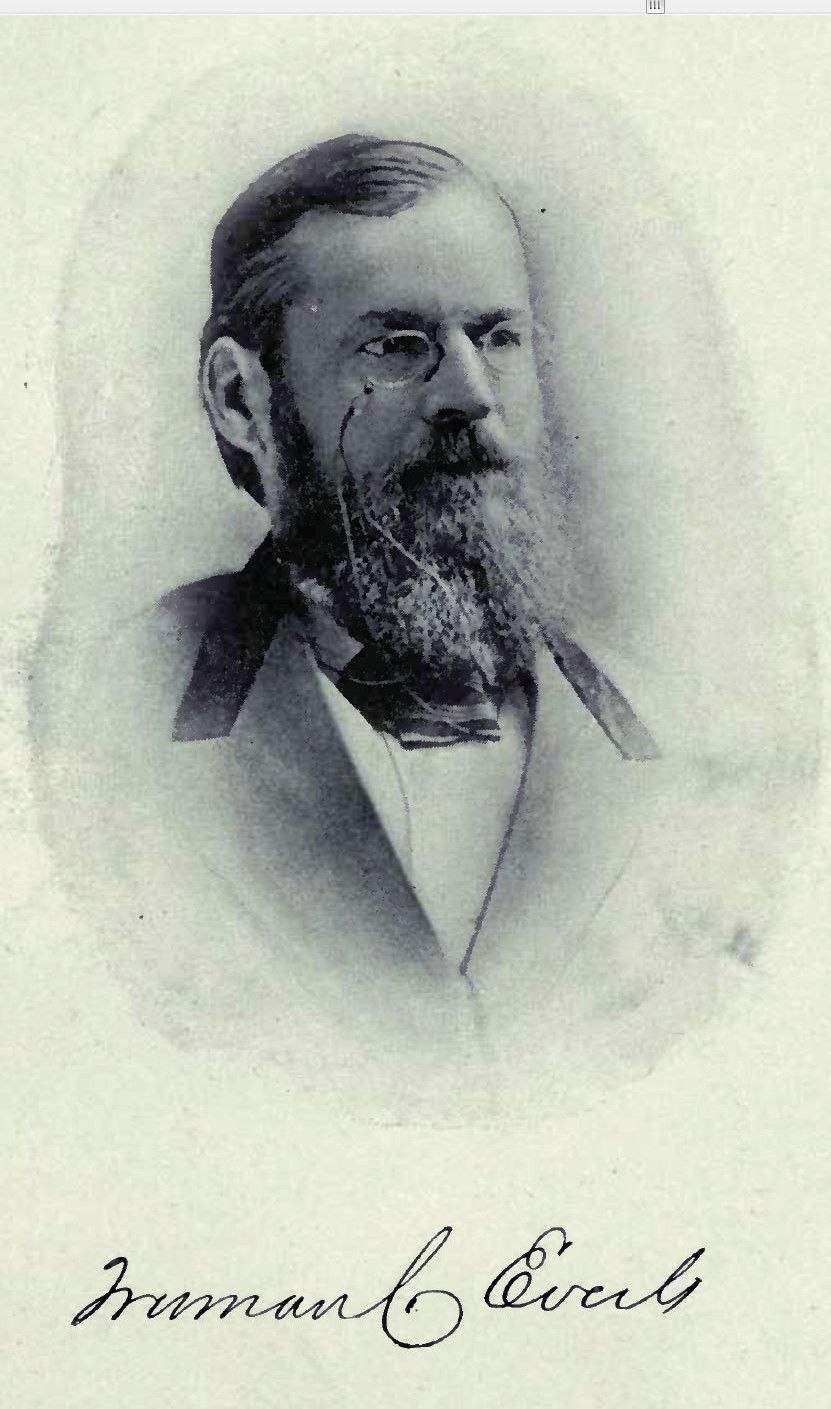 Protrait of Truman C. Everts, Helena, Montana circa 1870